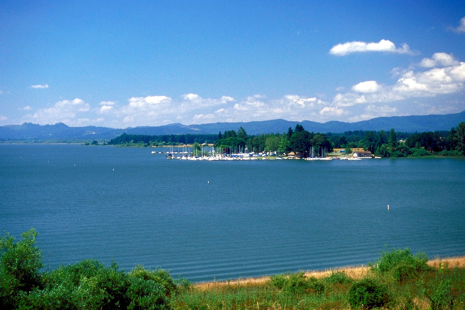 Fern Ridge Lake, also known as Fern Ridge Reservoir, in Lane County, Oregon, USA. The lake is formed by the Fern Ridge Dam impounding the Long Tom River. The lake is located approximately 12 miles (19 km) west of Eugene, Oregon.